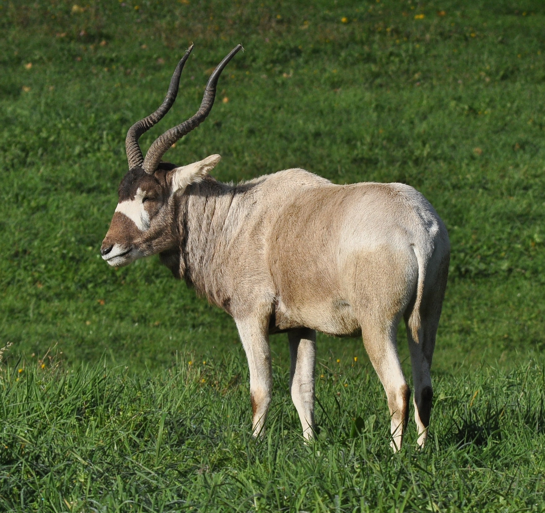 An Addax (Addax nasomaculatus) at the Greater Vancouver Zoo.